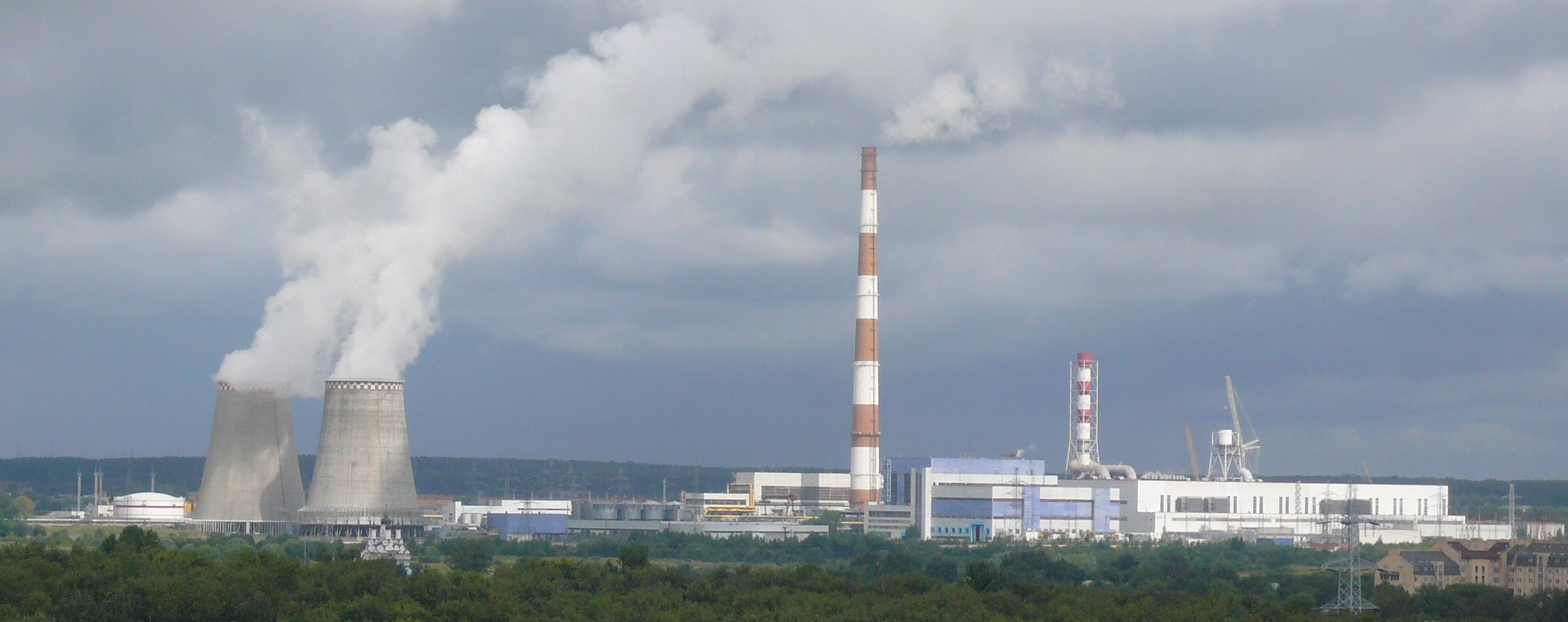 Heat and power plant #27, Moscow region, Russia